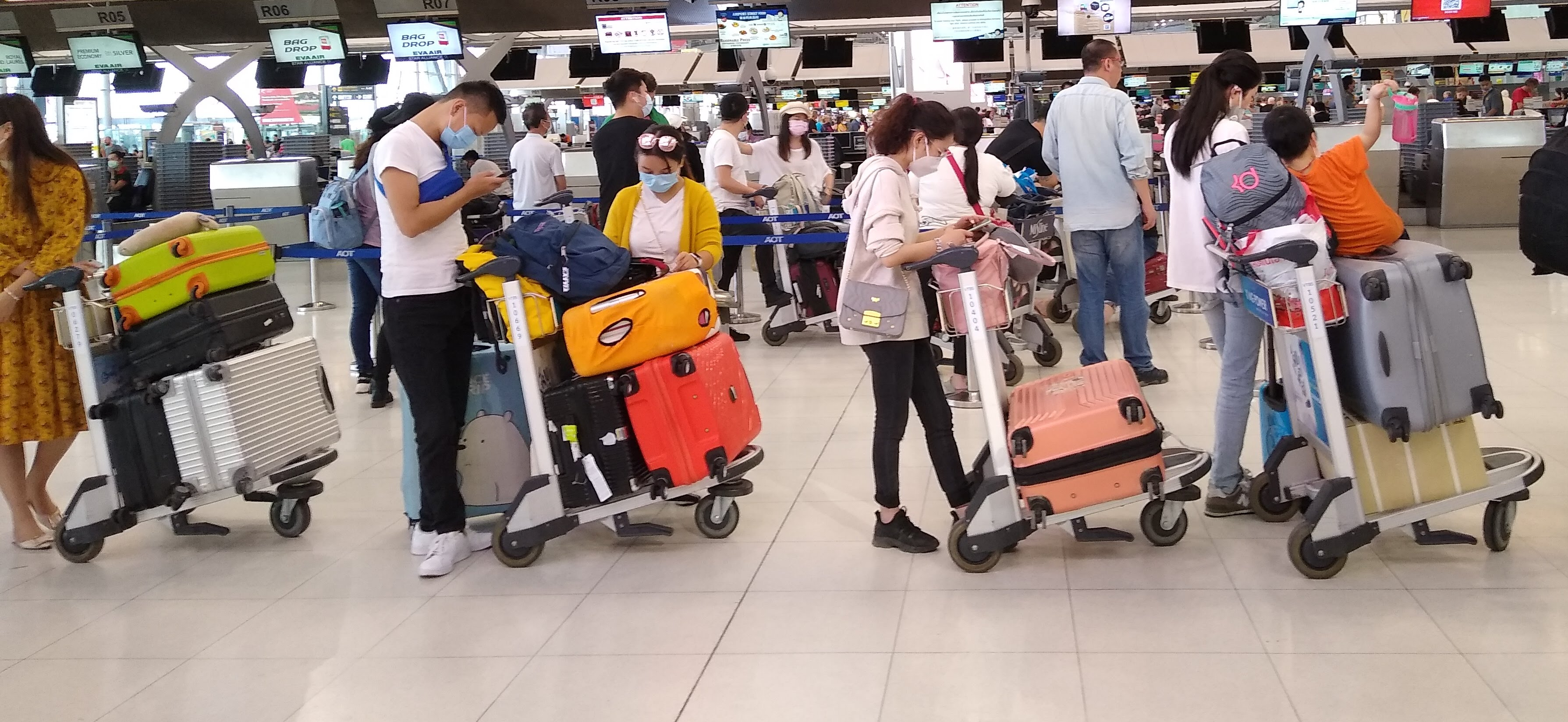 Passengers at Suvarnabhumi Airport in Bangkok waiting for a flight to Shanghai in March 2020. Most are wearing masks due to the COVID-19 outbreak.